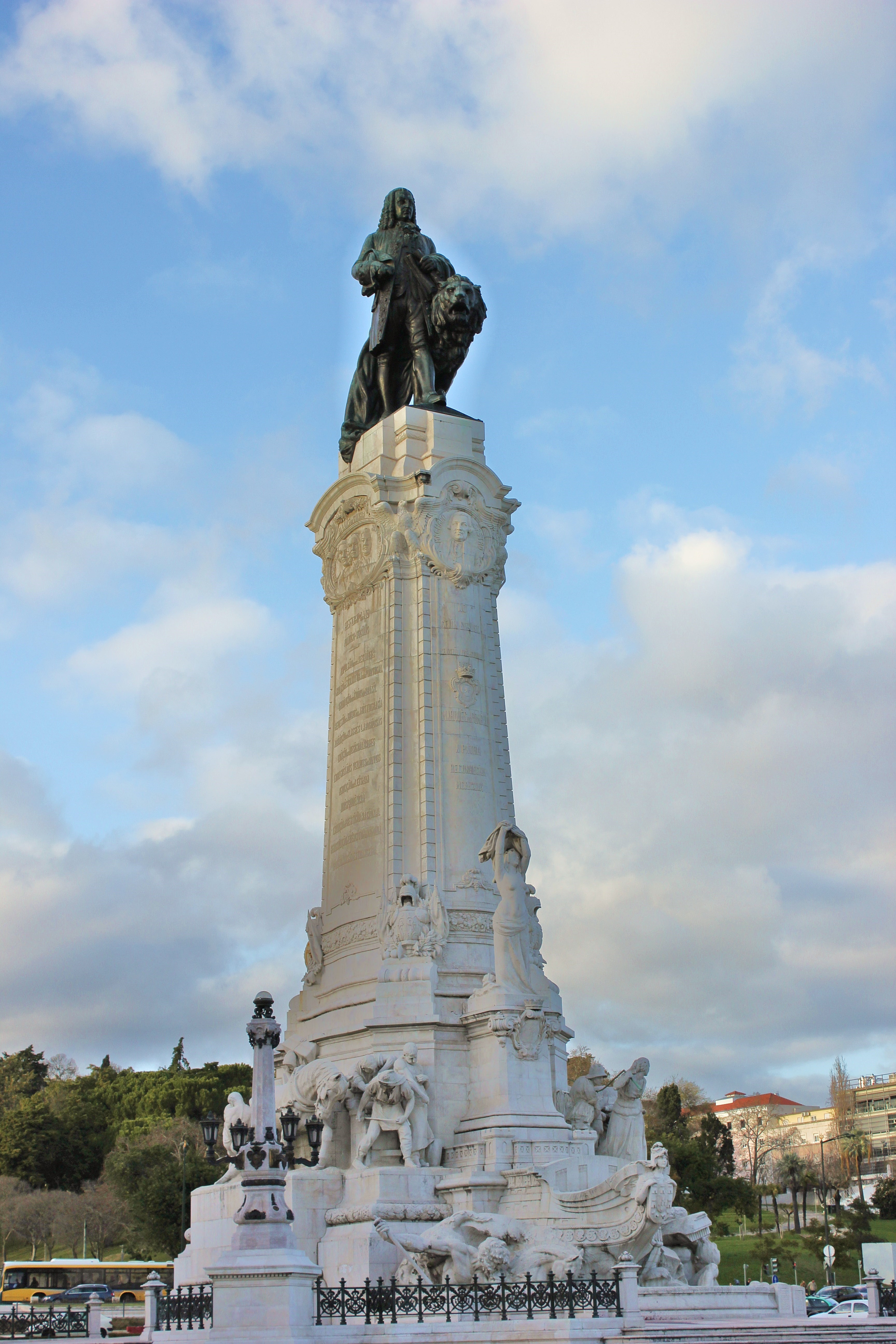 The Monument of the Marquês de Pombal in Lisbon 2013